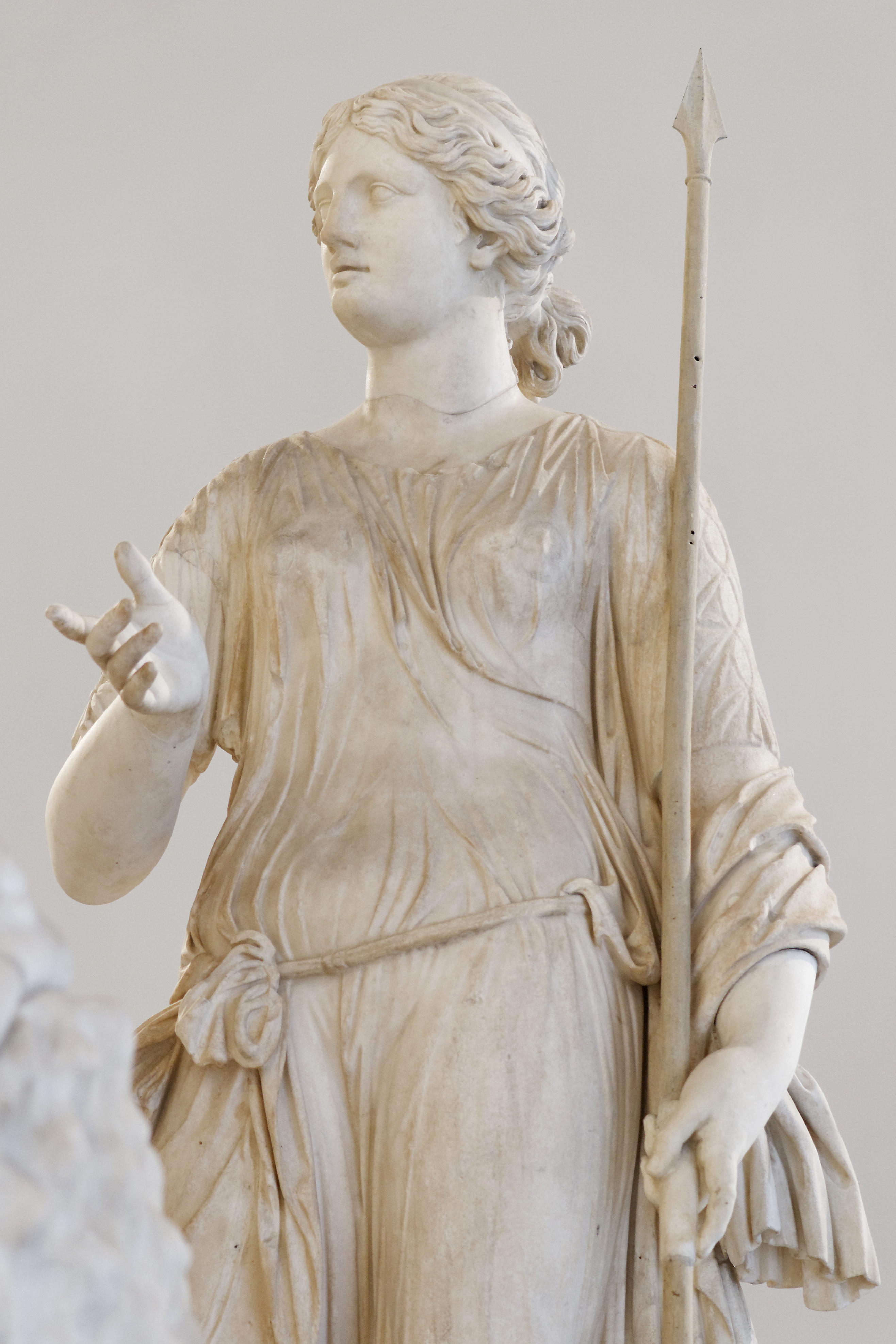 The death of Dirce, detail: Antiope. Roman adaptation of the Imperial era after a Greek original of the Early Hellenistic era; heavy modern restorations.